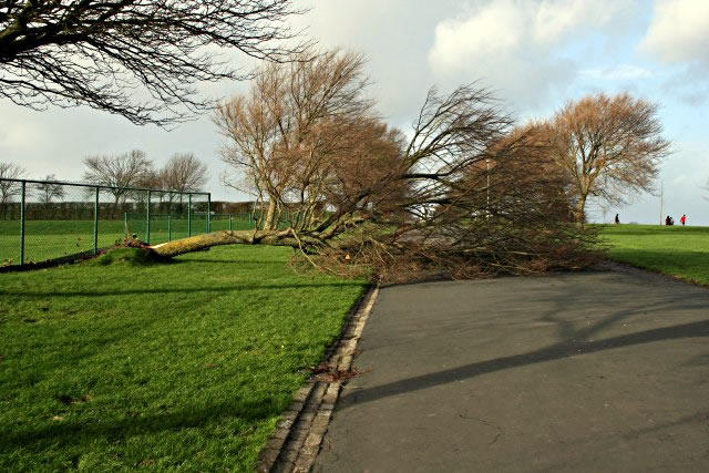 Uprooted Tree